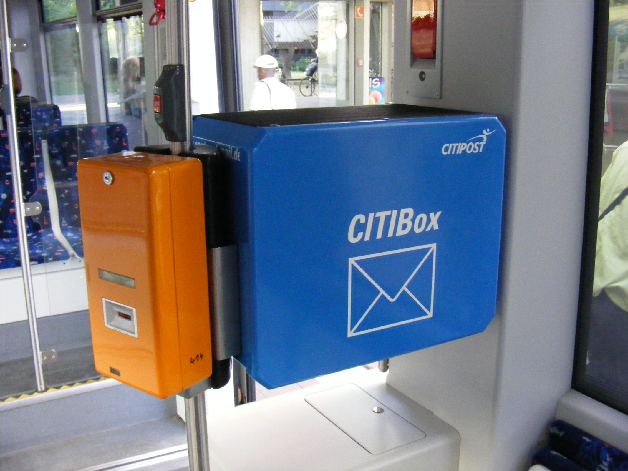 Two kinds of ticket machine are found on board, one taking cash and the other cards. Only one variety of post box, however. Deutsche Post not represented.